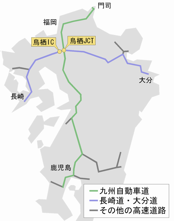 Location of Tosu junction,Kyushu Japan